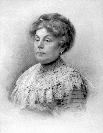 Marie_Petrofová (d. 1915), wife of Antonín Petrof sen. (1839-1915).